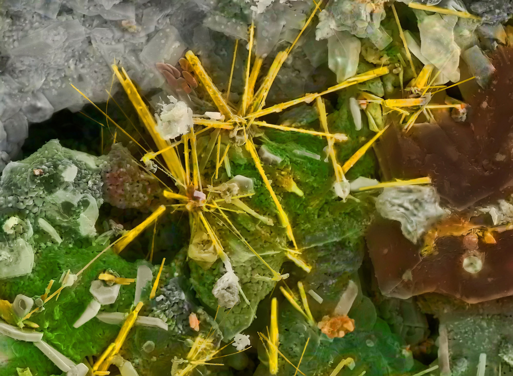 An electron micrograph of volcanic sublimates (minerals) in natural colors. Two different forms of copper molybdate Cu3O(MoO4)2 (cupromolybdite) – a mineral from fumarolic incrustations, Tolbachik, Kamchatka. Both forms of the mineral - bright yellow needles and massive brown crystals (right) - have the same composition and structure. The image also contains copper sulfate fedotovite K2Cu3O(SO4)3 (fine green crystals), langbeinite K2Mg2(SO4)3 (light gray crystals on top of the image), and palmierite (K, Na)2Pb(SO4)2 (light pseudohexagonal tabular crystals). Image size is 350 microns along the long side.